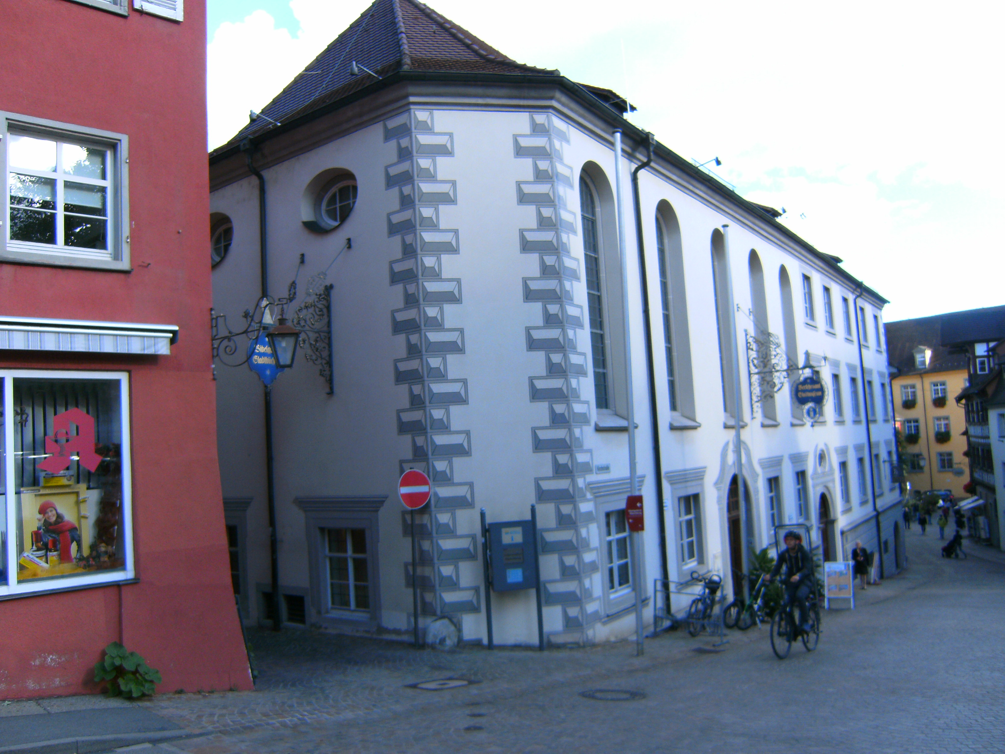 Meersburg, Germany, Oberstadt (upper town): Former Dominikanerinnen-Kloster (Dominican Monastery for nuns). View from Kirchstraße.